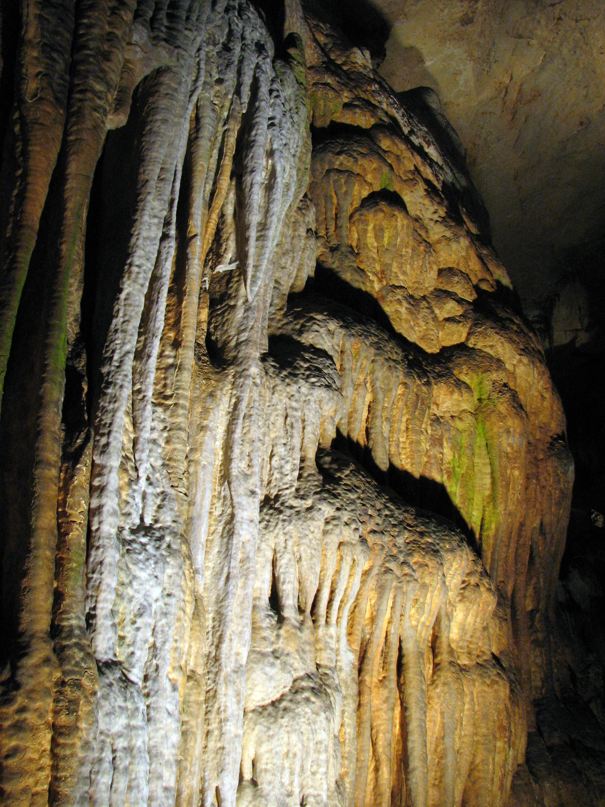 Luray Caverns